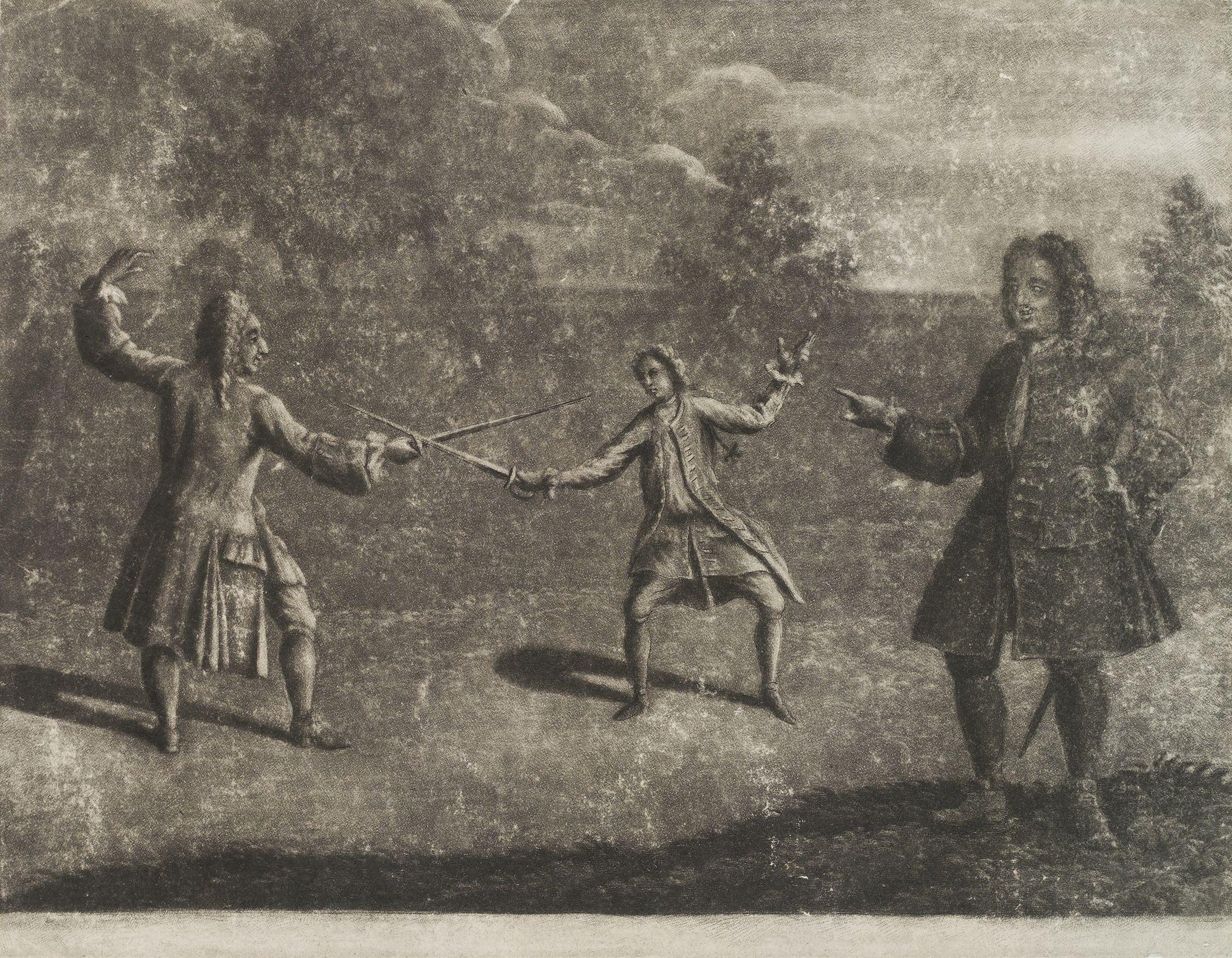 James Douglas, 4th Duke of Hamilton; Charles Mohun, 4th Baron Mohun, by unknown artist, given to the National Portrait Gallery, London in 1916. All images in this batch are listed as "unknown author" by the NPG, who is diligent in researching authors, and was donated to the NPG before 1939 according to their website.